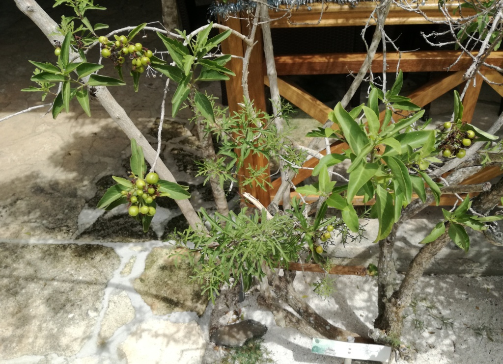 Clerodendrum laciniatum